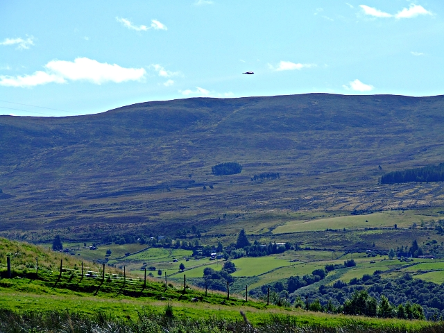 Altass More, the houses strung along the road in the middle distance